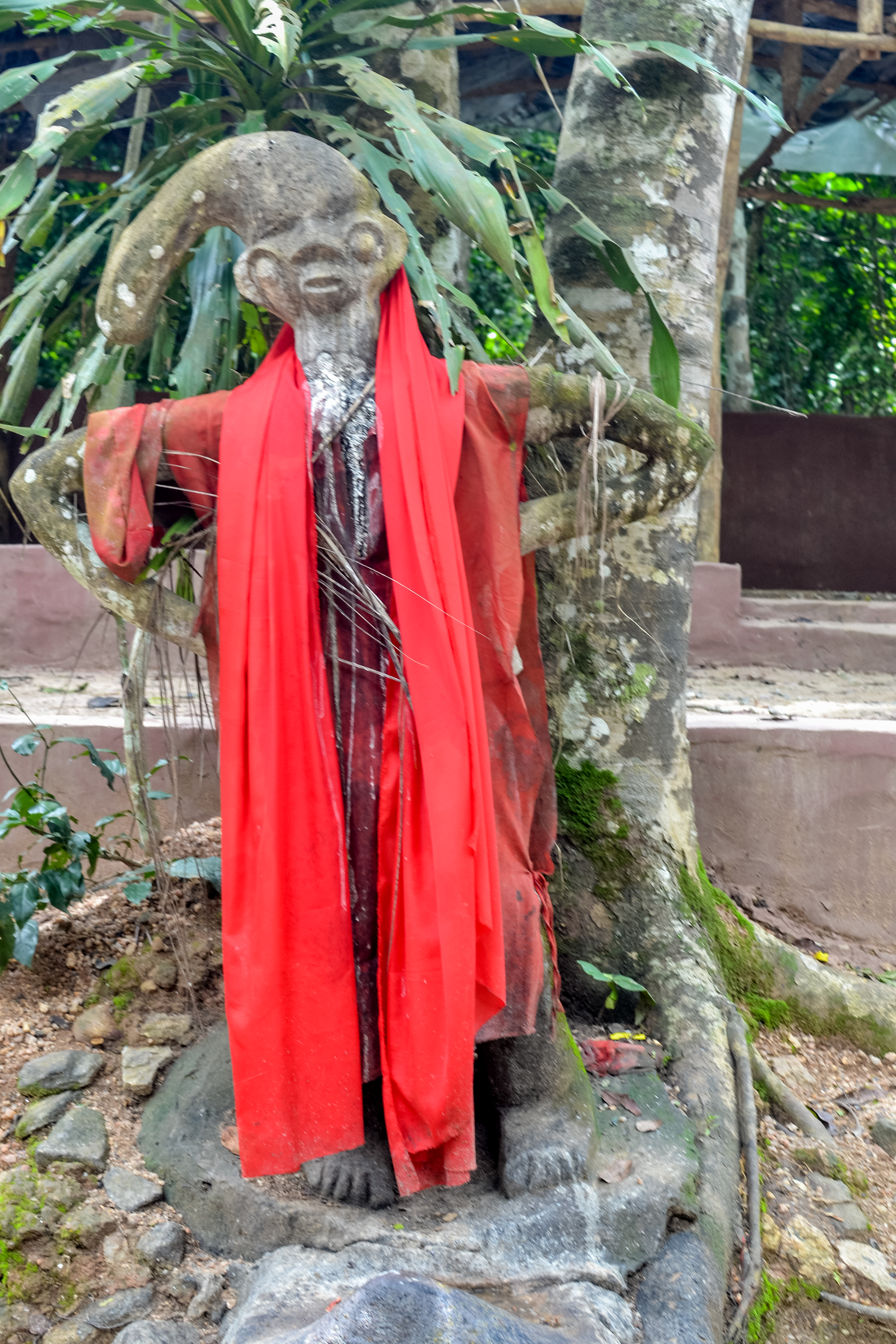 Statue of Ogun shrine at the Sacred Grove Of Oshun